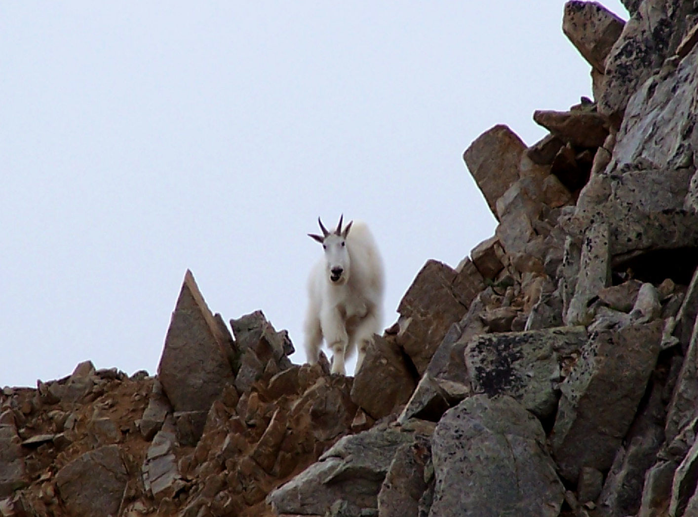 Mountain Goat near the summit of Mount Huron in Colorado